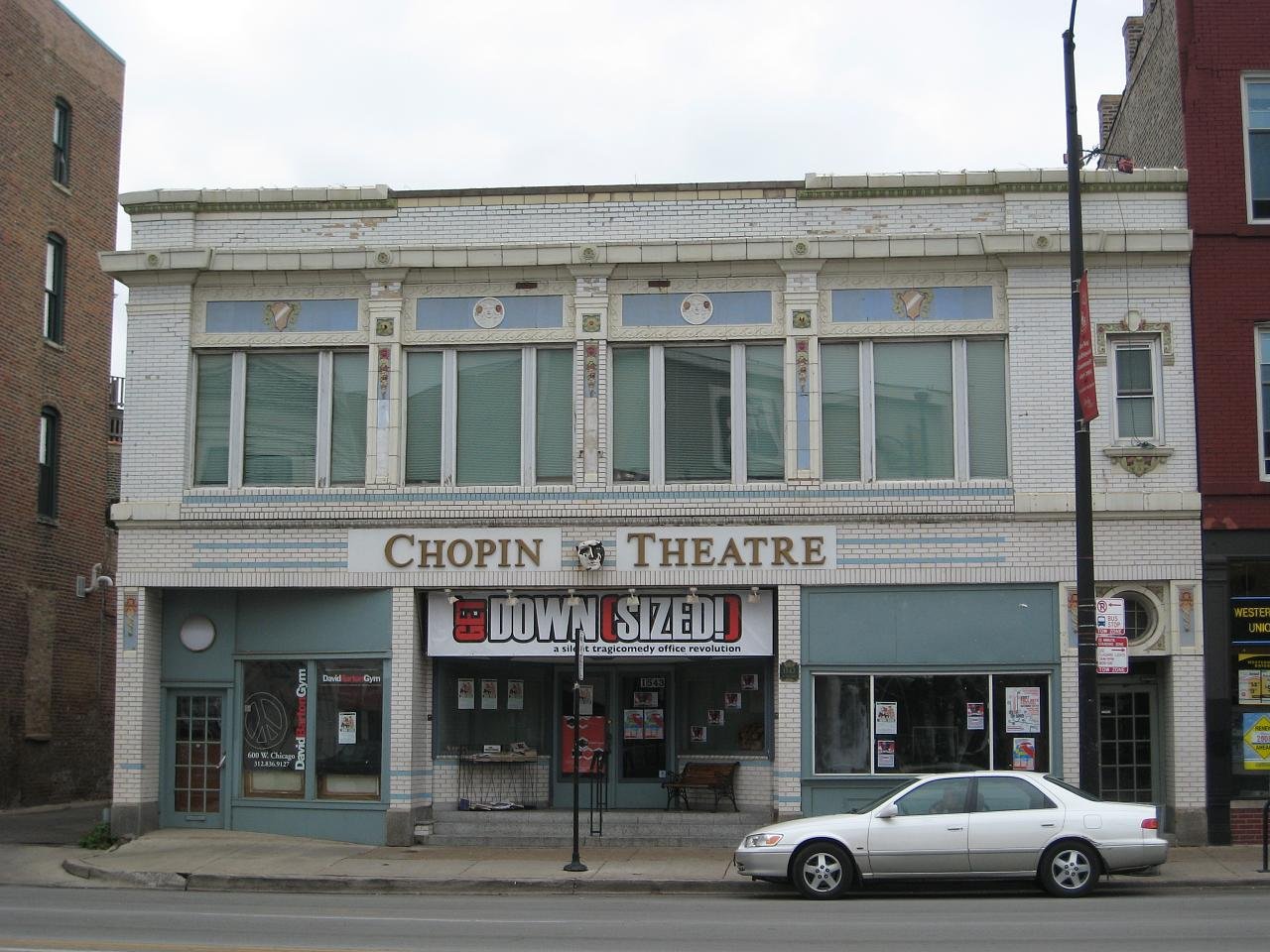 Chopin Theatre, Chicago, Illinois